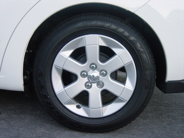 Alloy wheel of the US version of 2004 Toyota Prius..The outer rings are made of plastic, so are the chrome hub caps at the center of the wheels. The plastic rings are there to cover the wheel balancing weights for aerodynamic reasons.